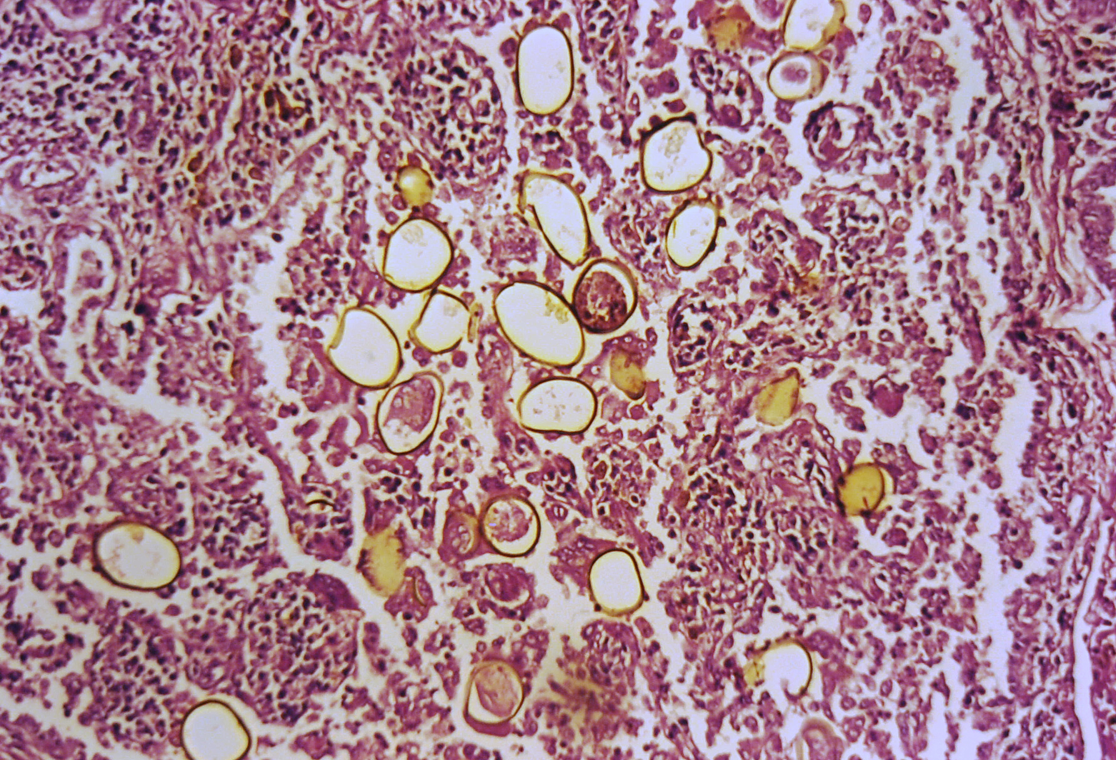 Paragonimiasis is caused by the lung fluke Paragonimus westermani which is most prominent in Asia and South America. Infection in humans is contracted by the ingestion of a crab or crayfish harboring the metacercariae. The metacercariae excyst in the small intestine and penetrate the intestinal wall gaining entrance to the peritoneal cavity and are then able to penetrate the diaphragm and invade the lungs where they develop into adults.The adult worms usually become surrounded by a fibrous capsule but they may also inhabit the airways. Ova are coughed up and either expectorated or swallowed and then excreted. If the ova find their way into water the miracidia emerge from the ova which may then be ingested by a suitable snail. Cercariae leave the snail and then invade a crab or crayfish where they develop into metacercariae, the infective stage for humans. This image shows numerous large, yellow ova with a thick outer rim located within the lung parenchyma.. Contributed by Philip Kane, MD